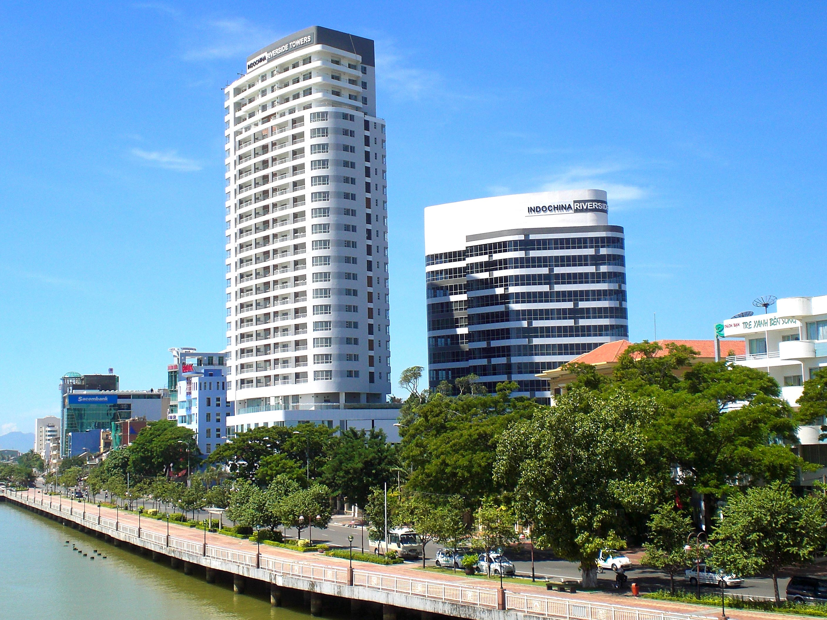 This is one view of Bach Dang street, Da Nang, Vietnam. I took this shot from Han River Bridge so the river is therefore Han. The white-and-gray building is Indochina Riverside's.